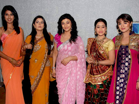 Pooja Gaur, Ragini Khanna, Disha Wakani, Aashka Goradia,Aishwarya Sakhuja on the sets of KBC